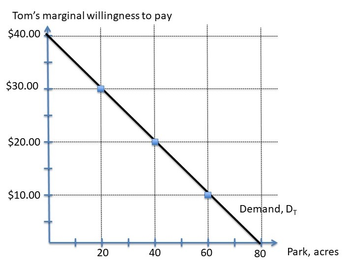 This is a graph of the second individual's willingness to pay for a public good.